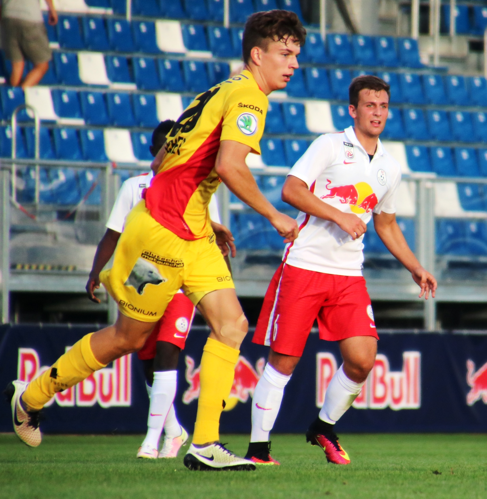 league match Austria 2nd league